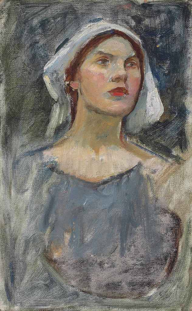 Head study for "The enchanted garden"